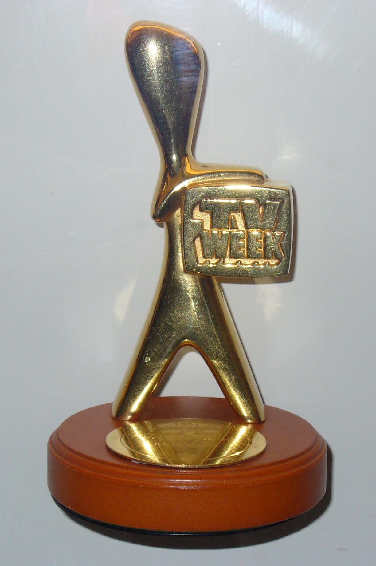 Gold Logie displayed at the Powerhouse Museum in Sydney.